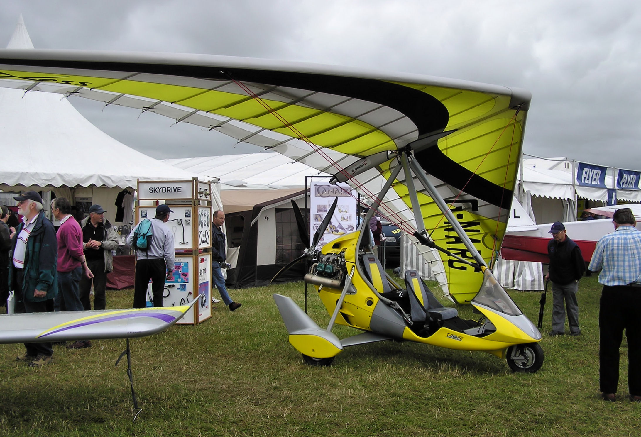 Tanarg/Ixess 15 912S(1) hang glider (G-NARG) at a Popular Flying Association rally at Kemble Airfield, Gloucestershire, England.